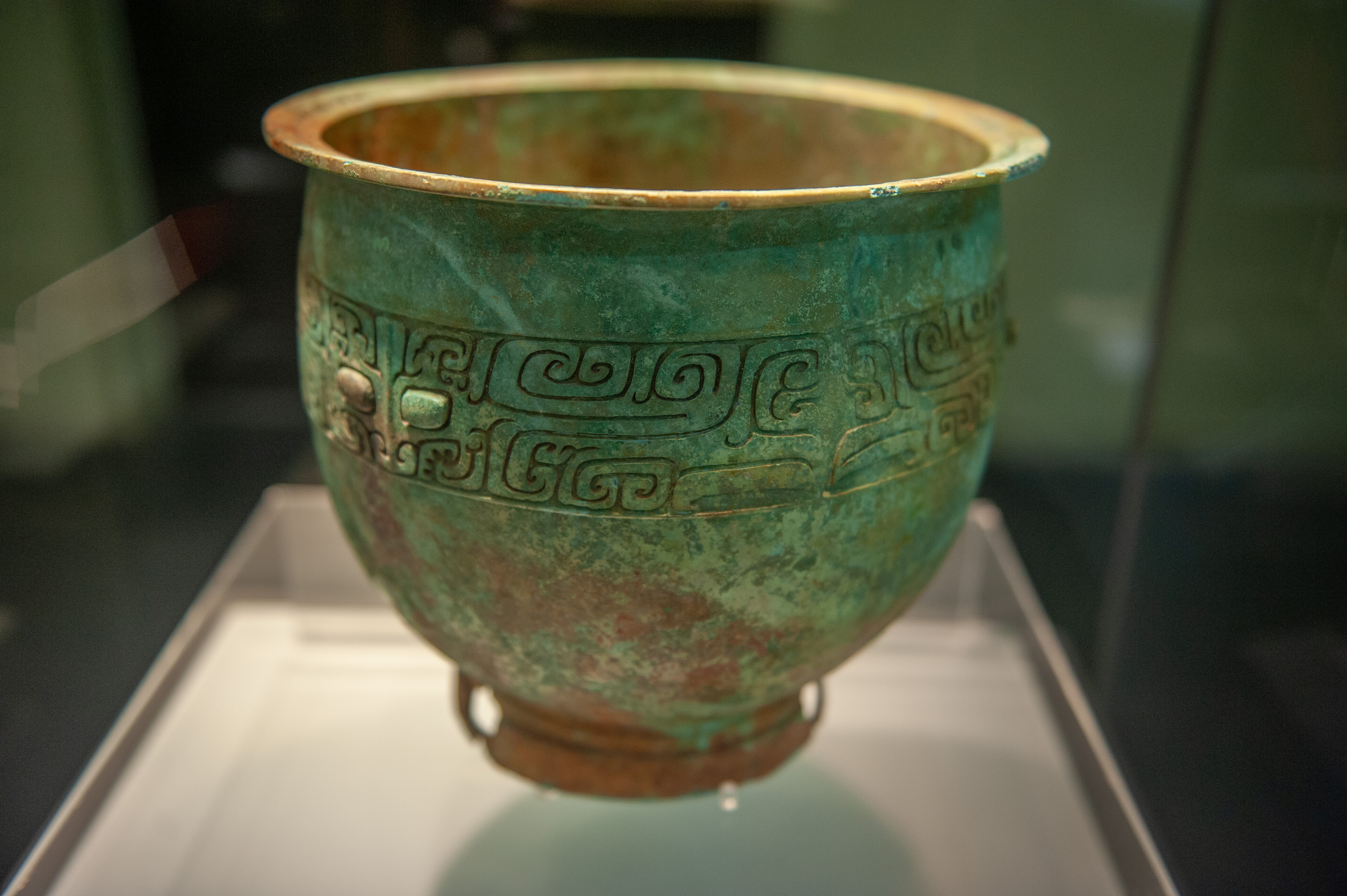 铜簋 李家嘴2号墓出土 湖北省博物馆藏